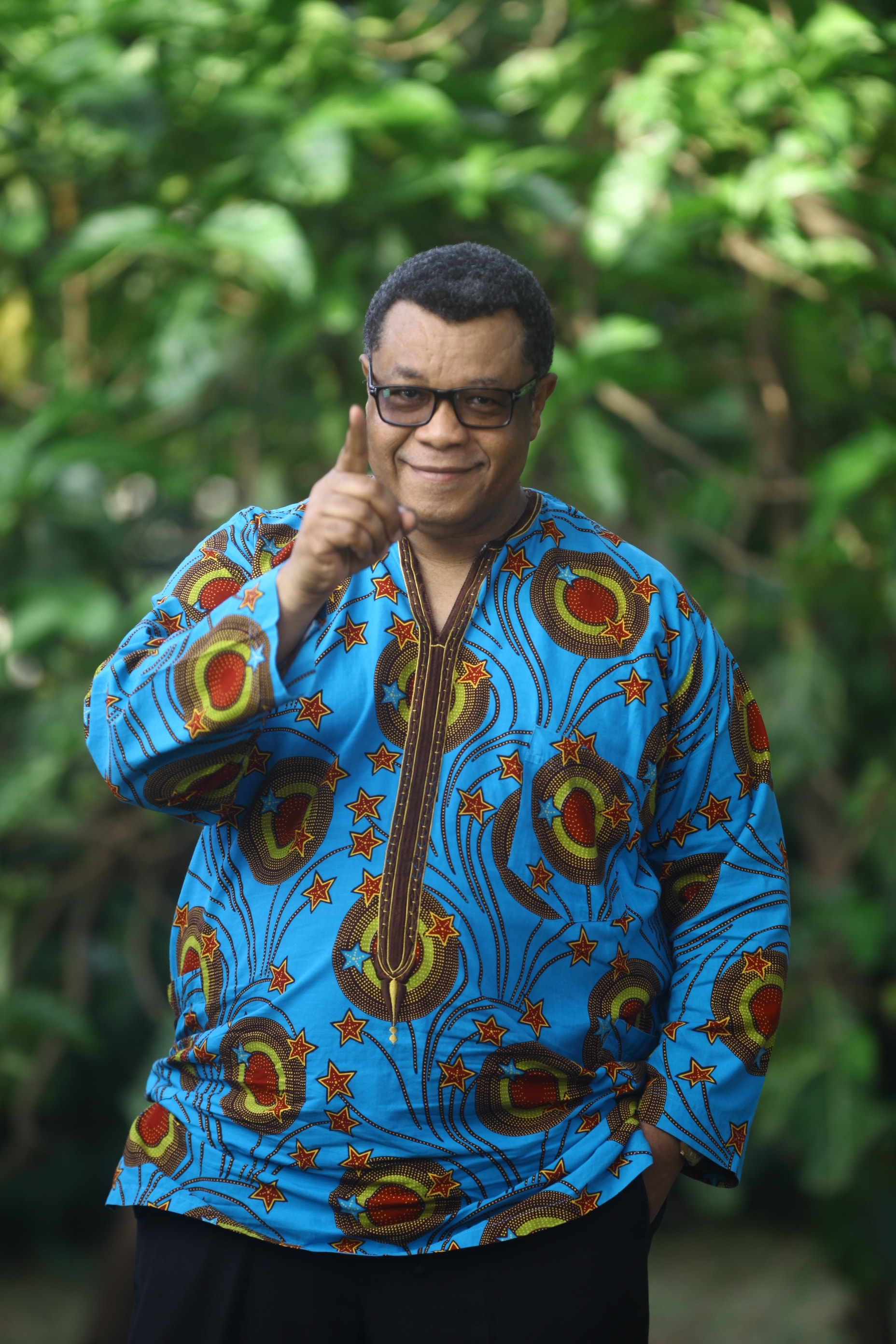 Goosie Tanoh profile picture